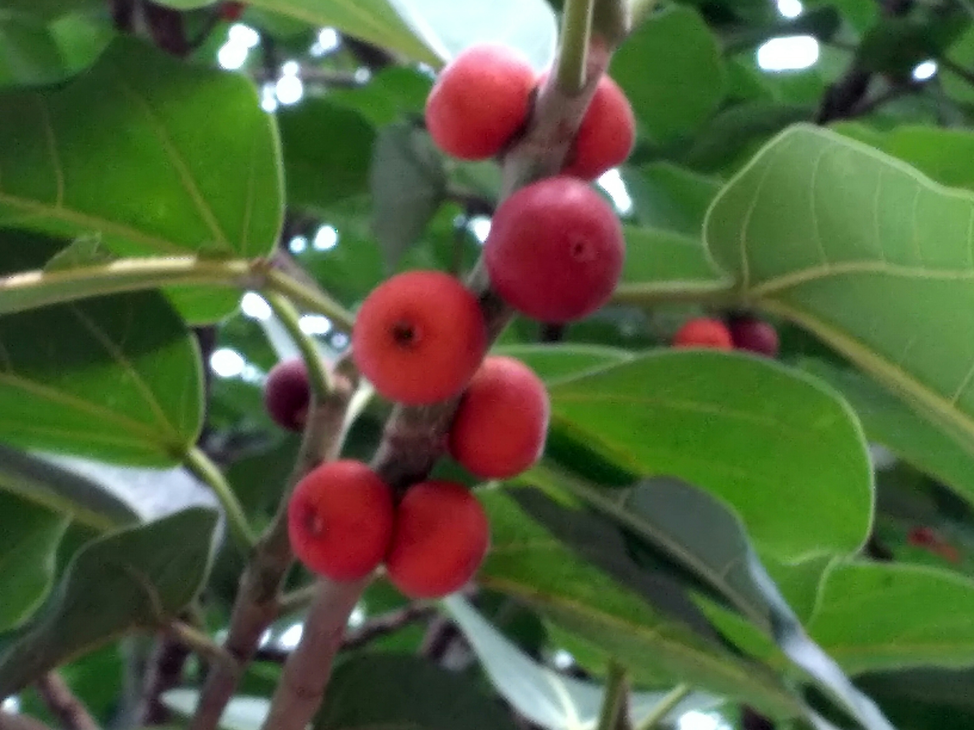 Ripe fruits of Indian banyan. Suhrawardi Udyan, Dhaka, Bangladesh. (2.6.2019)